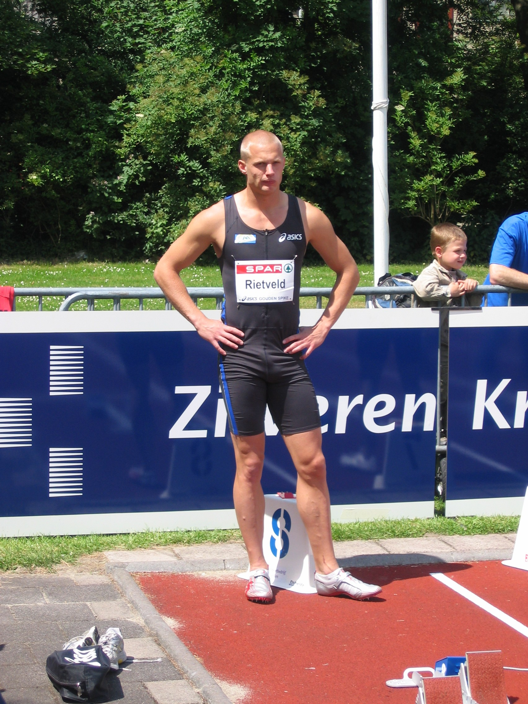 Pelle Rietveld at the Gouden Spike Meeting '08 in Leiden, The Netherlands